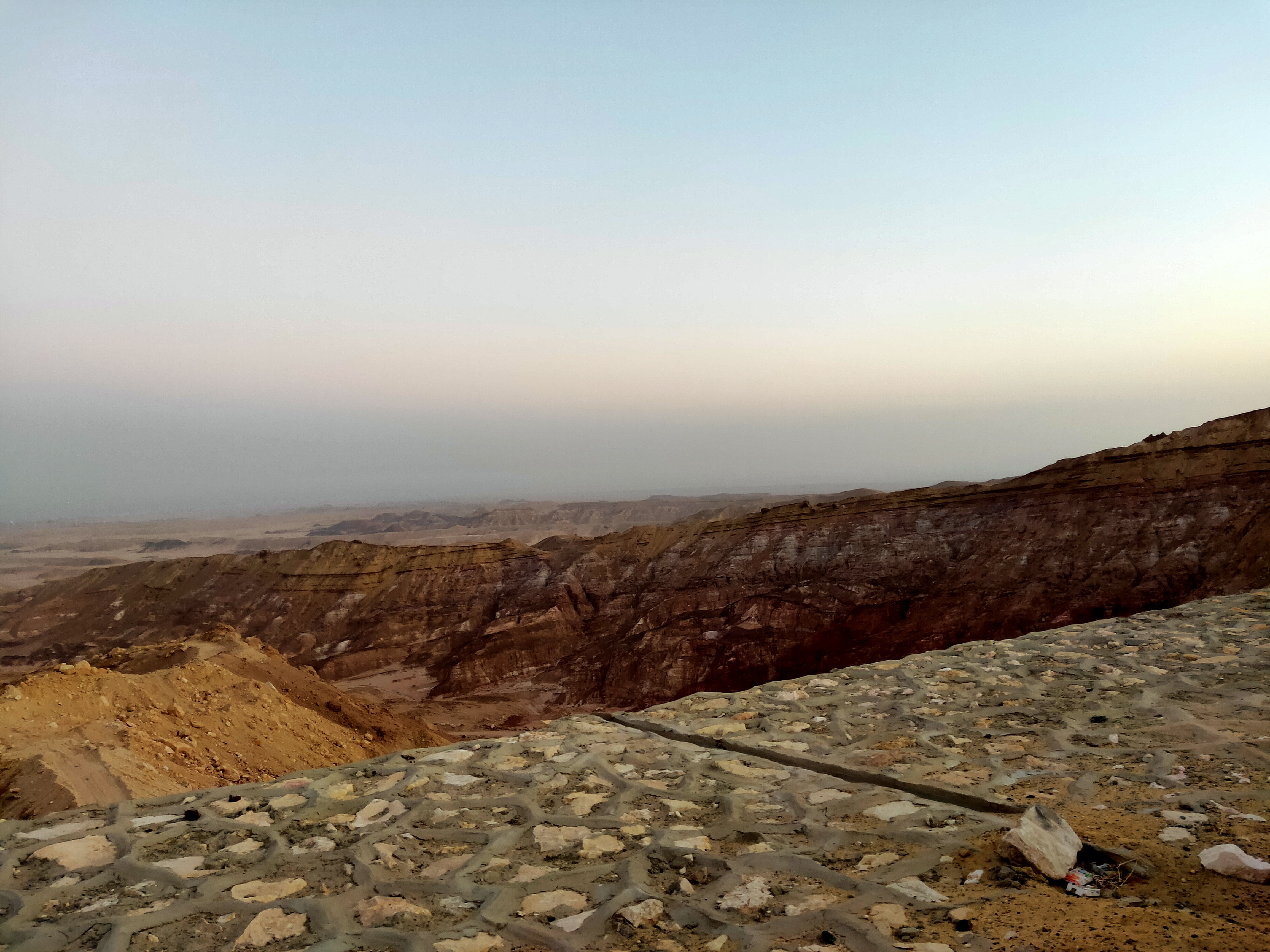 A view of the mountains on the Galala Plateau Road at sunset